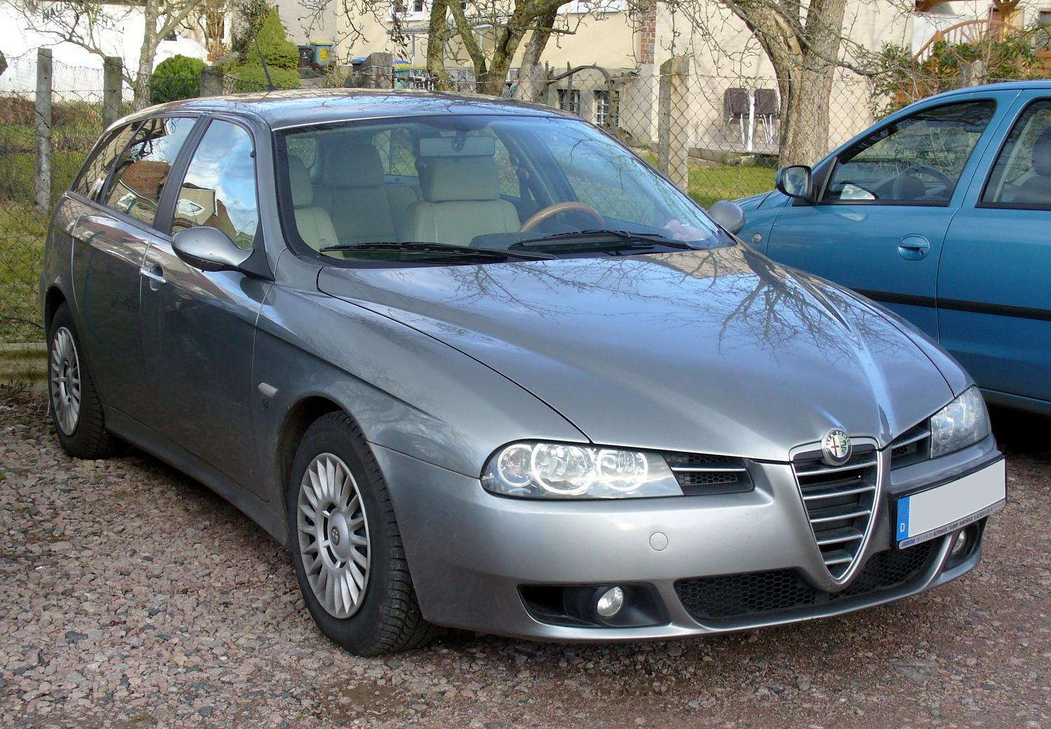 Alfa Romeo 156 Sportwagon